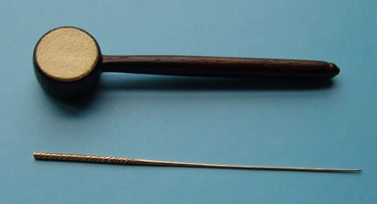 Tapping-needle set for acupuncture treatment (dashinhō) in the Misono Isai style.